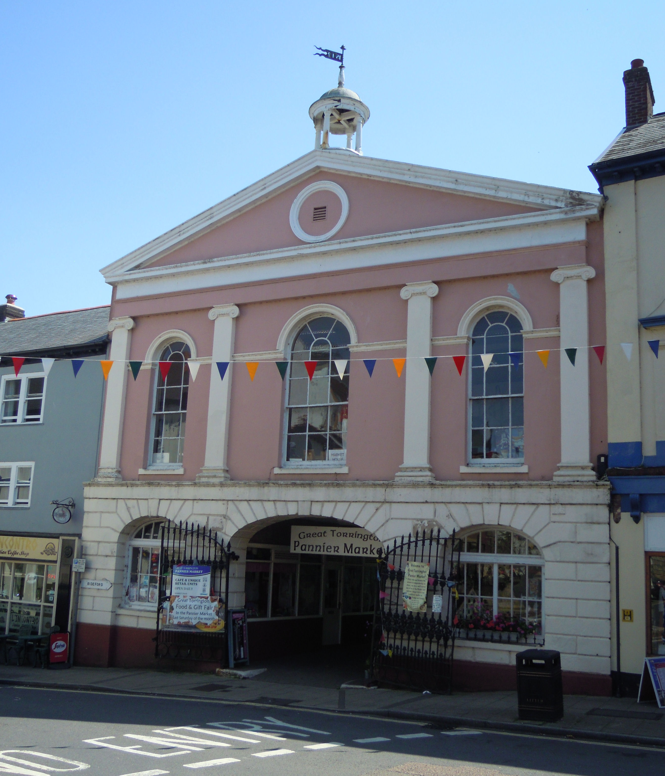 The entrance to the Guild Hall and Pannier Market at Torrington in Devon